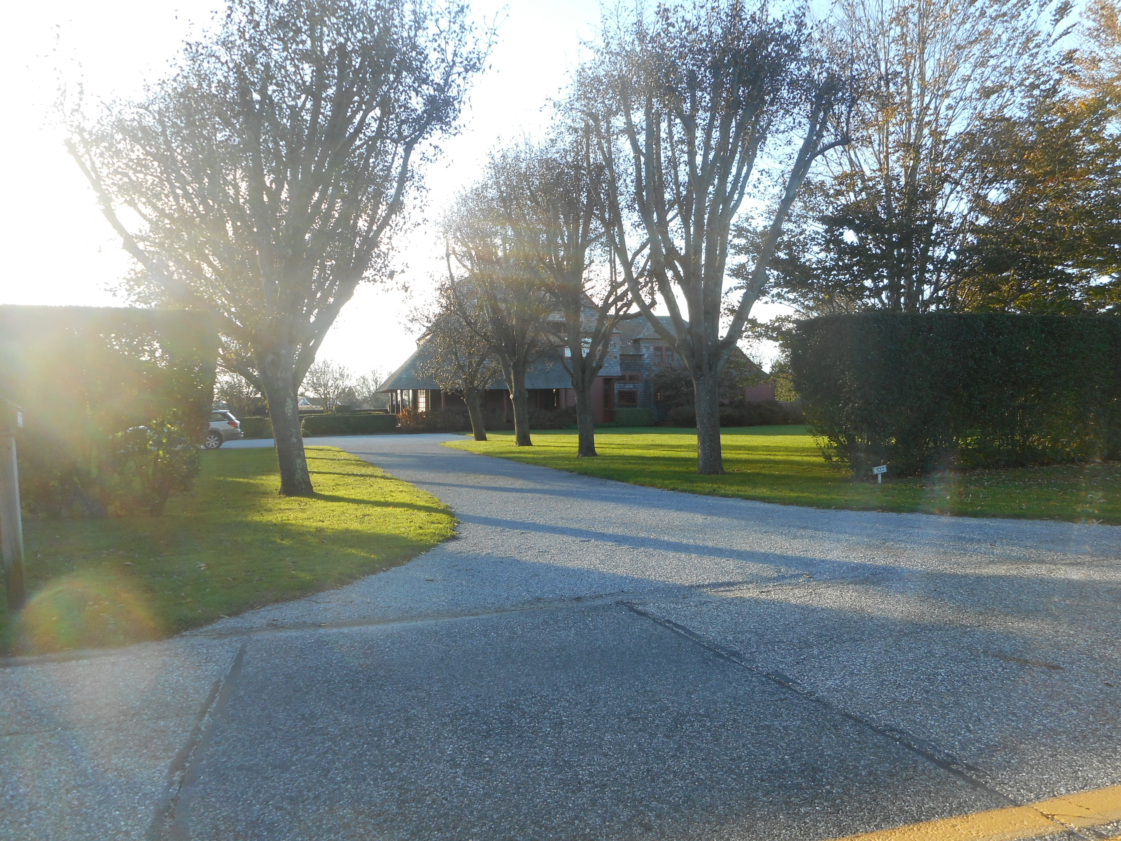 The NRHP-listed Rosemary Lodge on 322 Rose Hill Road in Water Mill, New York.